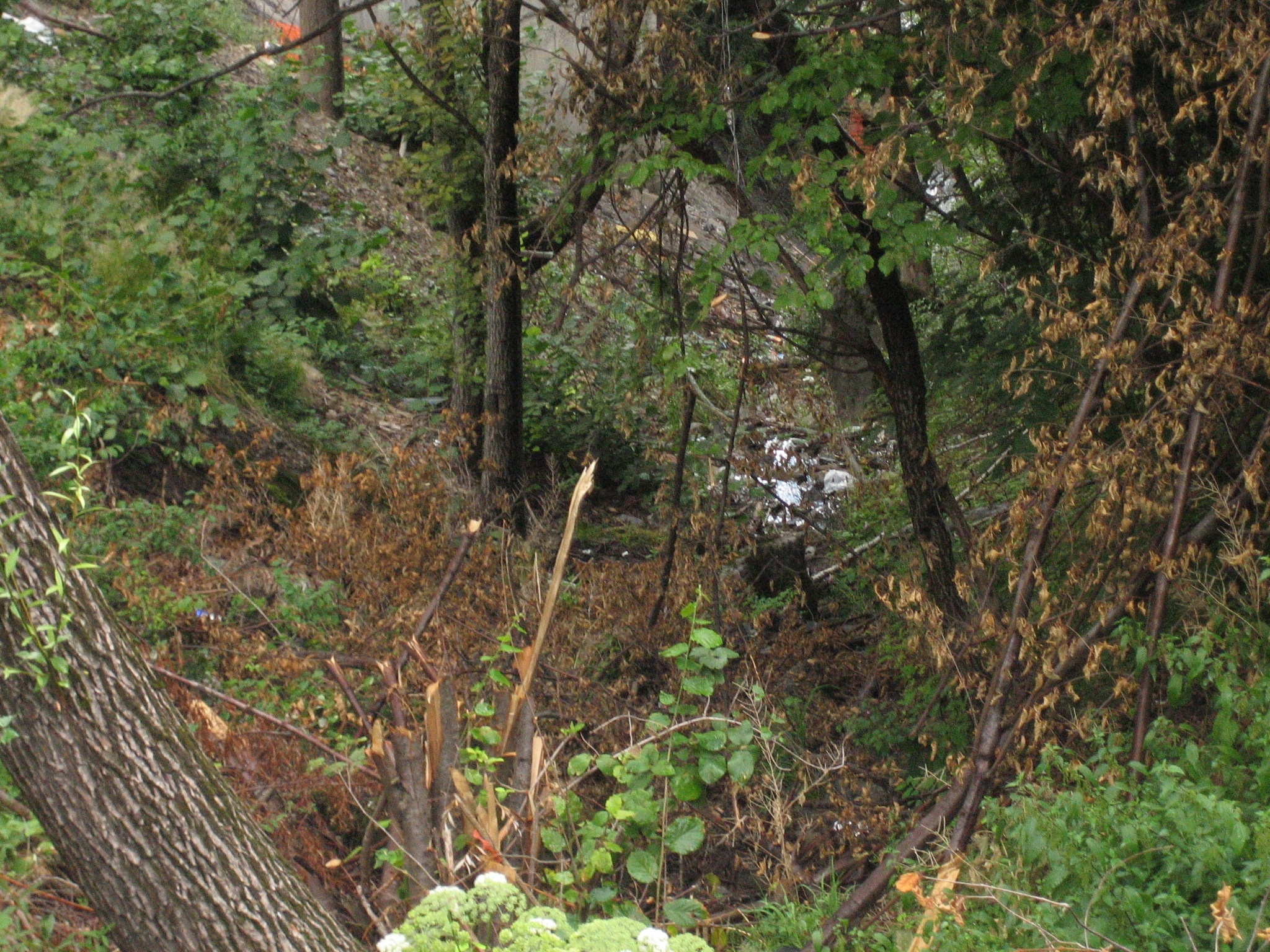 Riu de Font Amagada river, Anyós, La Massana, Andorra